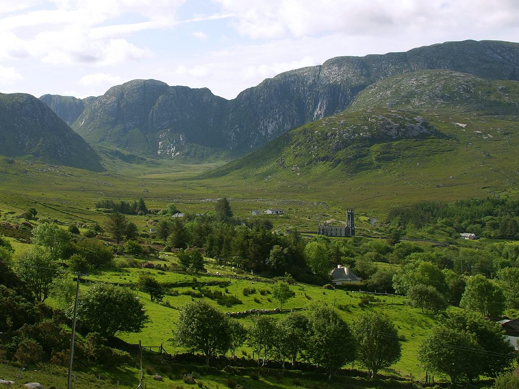 Poisoned Glen and Dun Luiche